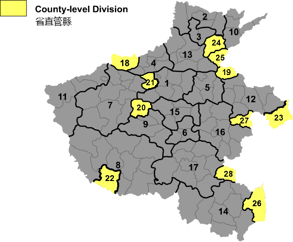 Henan, China